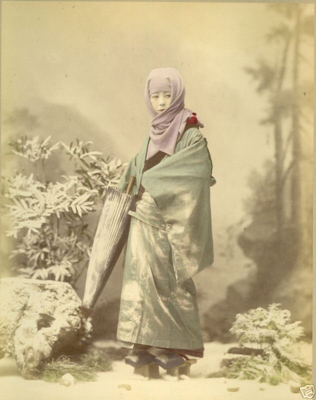 Japanese geisha in winter costume